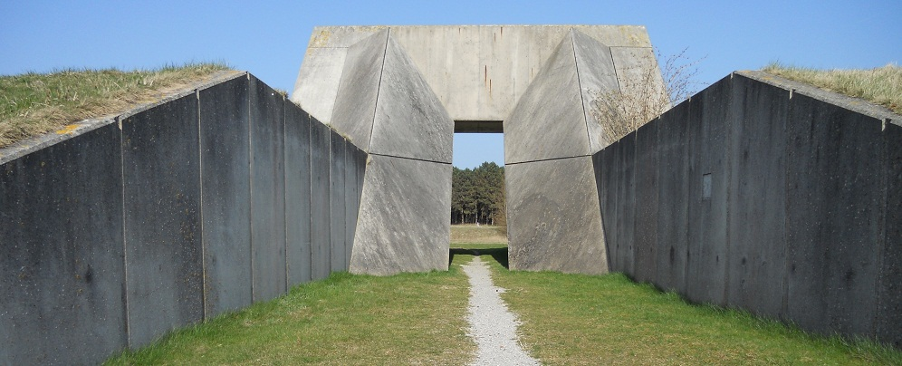 Concrete land art object Lauwersmeer, Groningen by Onco Tattje. Front view of the object.